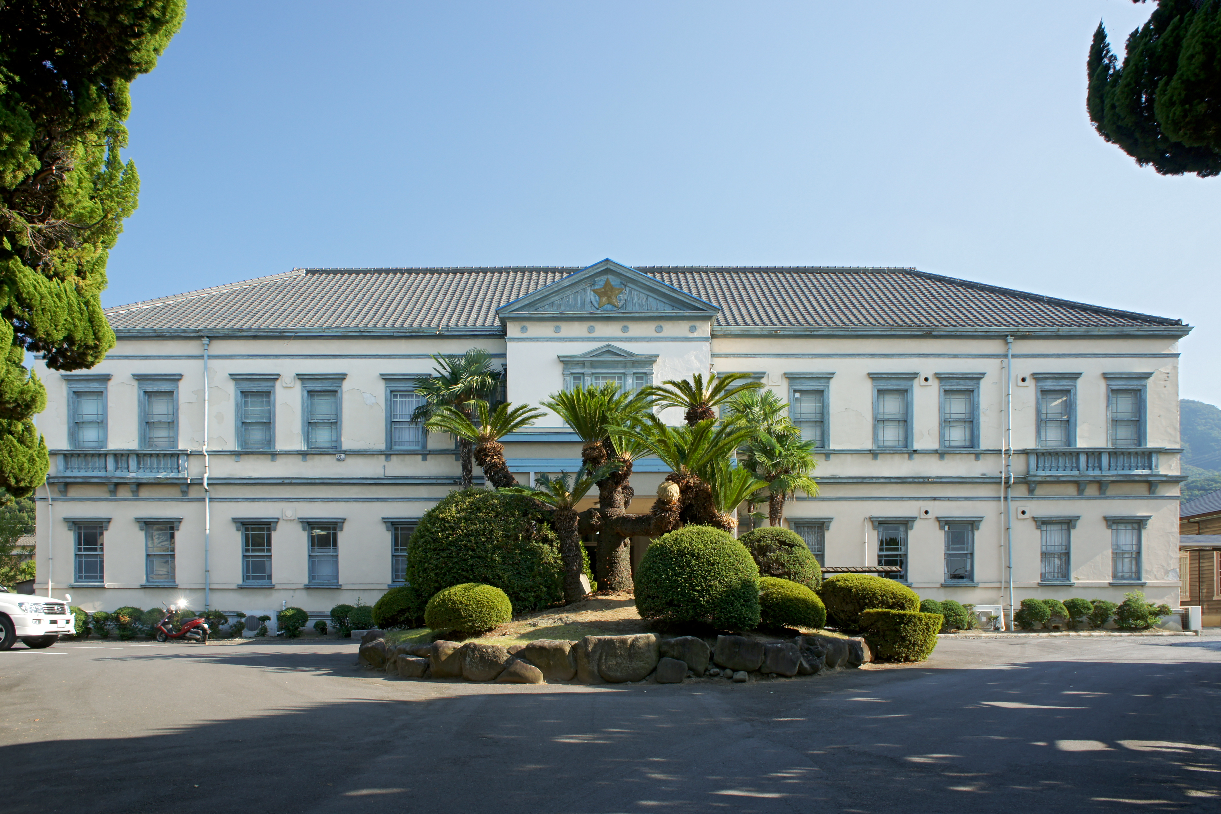 Nogi Museum at The Museum of JGSDF Camp Zentsuji in Zentsuji City, Kagawa prefecture, Japan